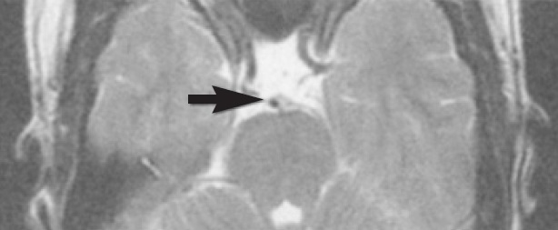 MRI with flow-related signal loss. For context, see: MRI artifact